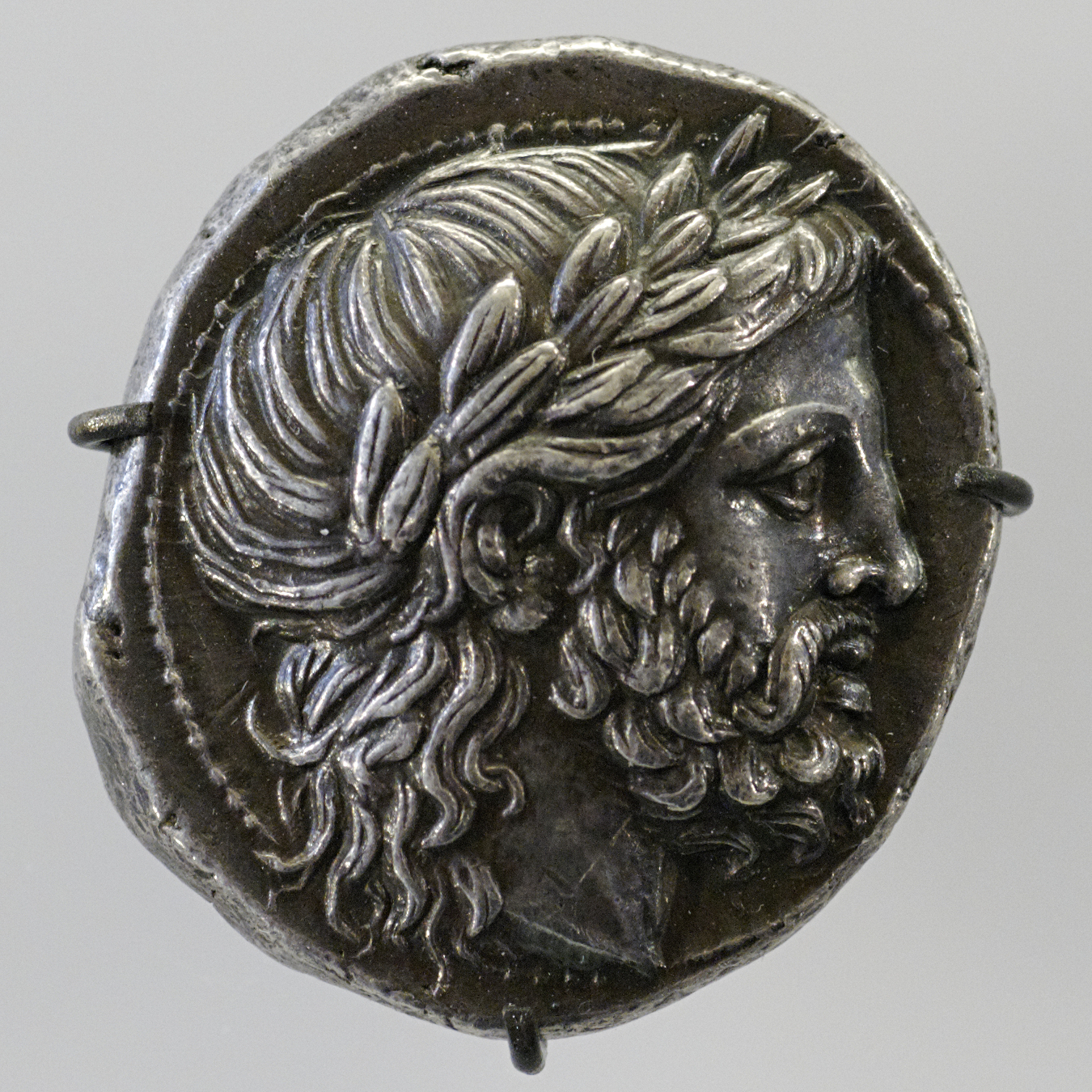 Head of laurel-wreathed Zeus right. Obverse of a silver tetradrachm minted in Pella during the reign of Philip II of Macedon.